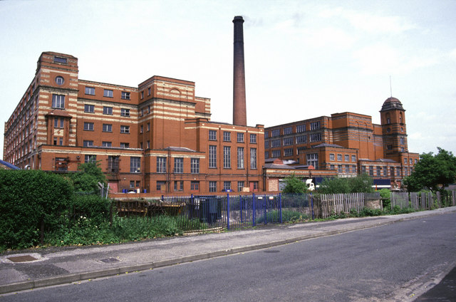 Leigh Spinners, Leigh This is a colour slide version of my earlier monochrome shot. Sometimes it seems I just wander round in circles using different cameras and progressively more "modern" media. I haven't taken the digital version of this yet, but I will if the demolition man doesn't beat me.